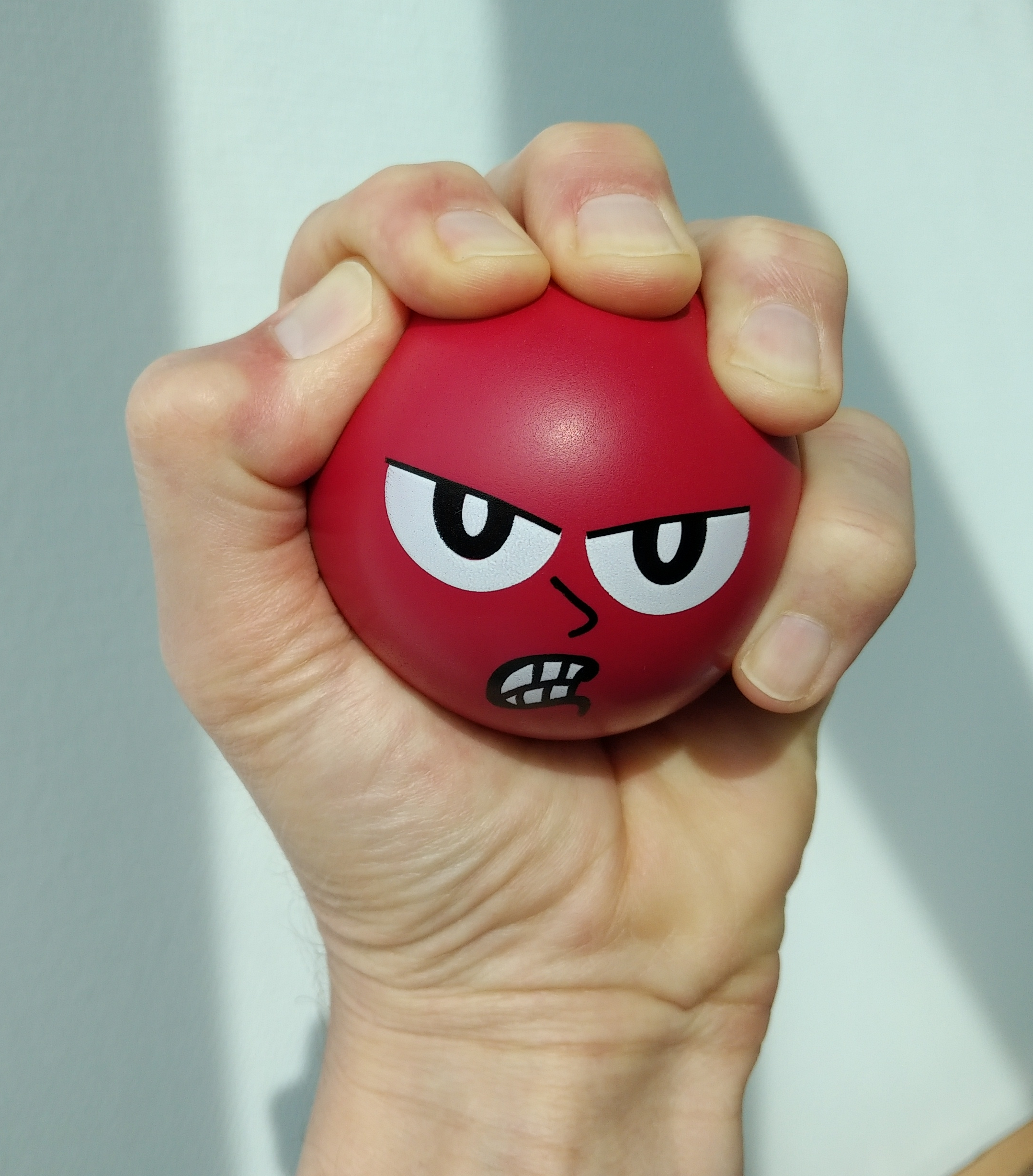 A stress ball to reduce stress and muscle tension or to train the muscles of the hand.